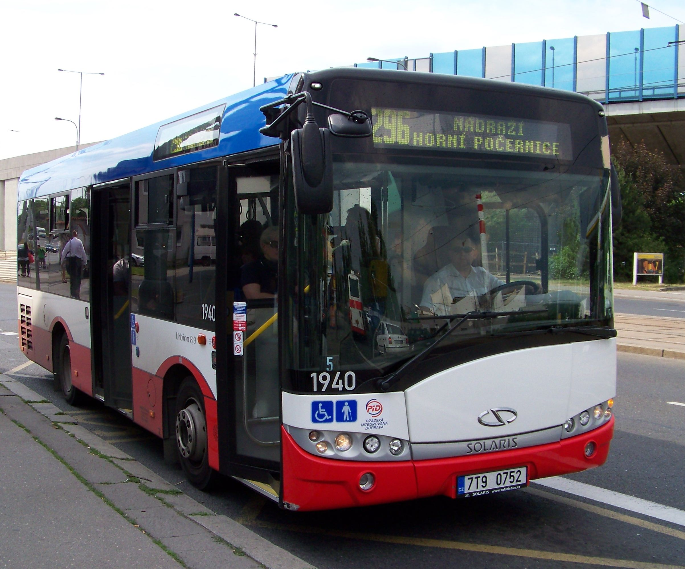 Prague-Záběhlice-Zahradní Město, the Czech Republic. Švehlova street, Solaris Urbino 8,9 LE bus (#1940, reg. 7T9 0752) of About Me company.